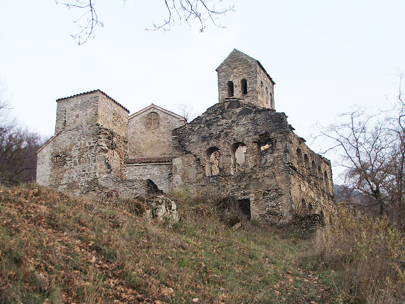 monastery complex founded by St. Abibo Nekreseli in the 6th century.